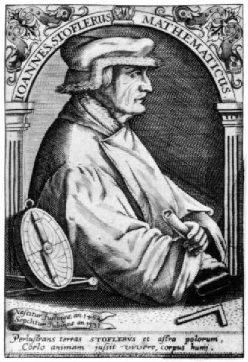 Johannes Stöffler (Ioannes Stoflerus)